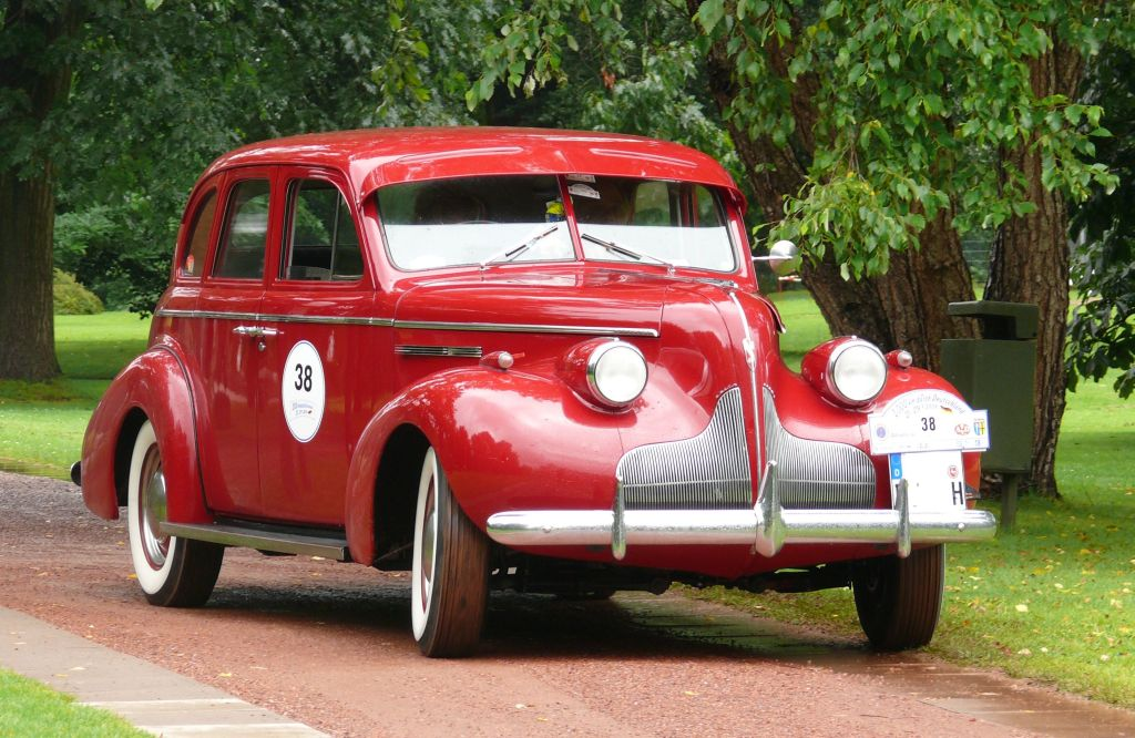 1939 Buick Special Series 40 Model 41 4-door Touring Sedan